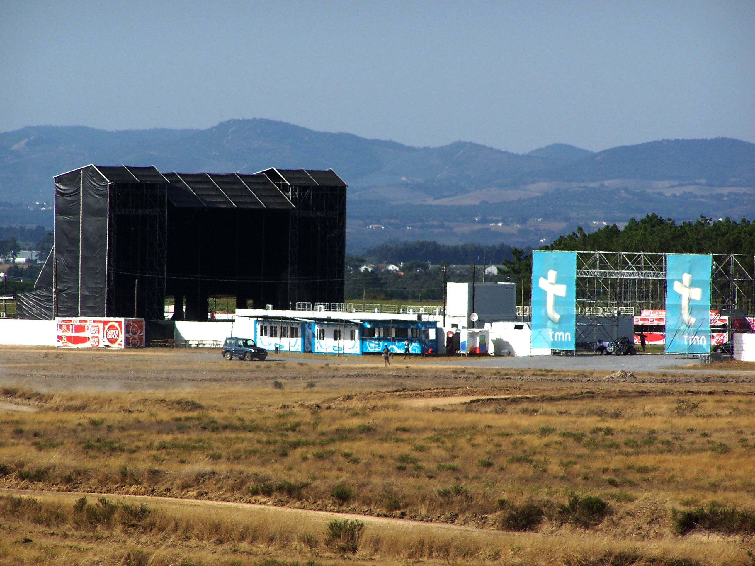 Festival Sudoeste - Sudoeste is a large, four-day music festival that began in 1996 and takes place every August near Zambujeira do Mar, in southern Portugal. The festival has three stages which play different music simultaneously.